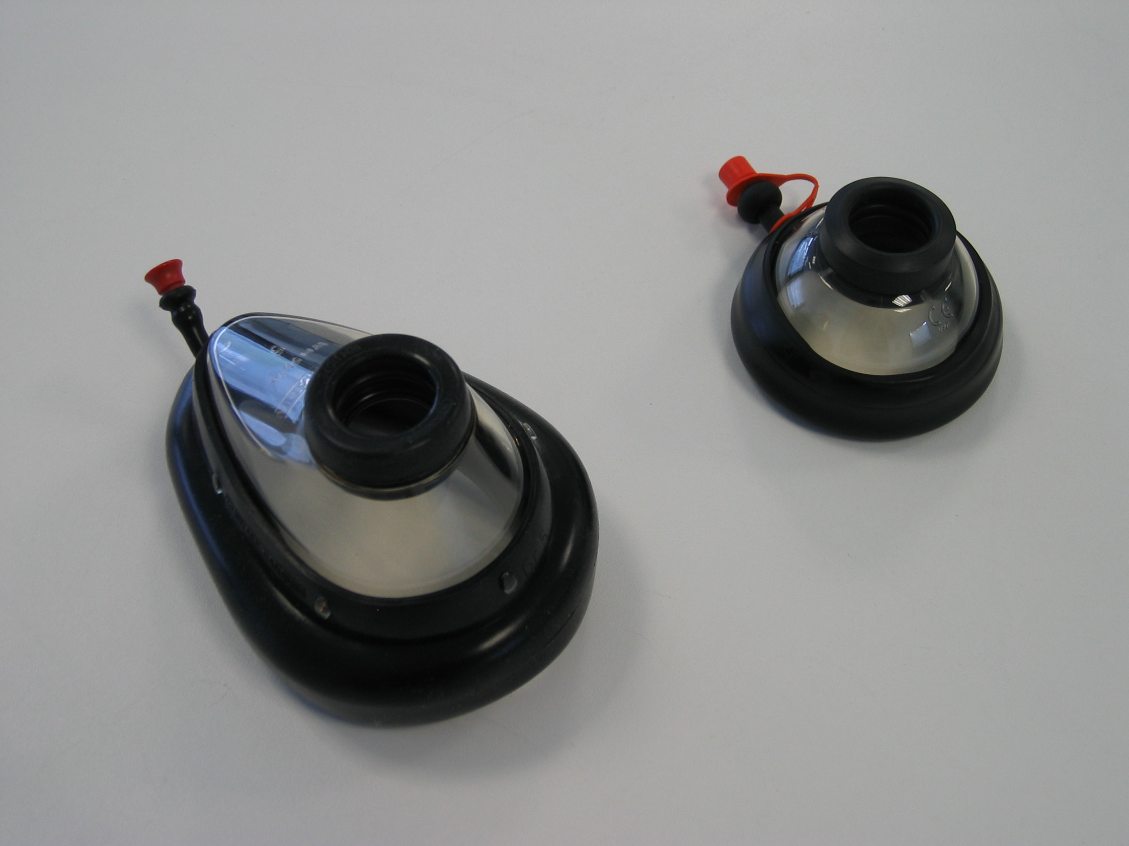 respiratory masks